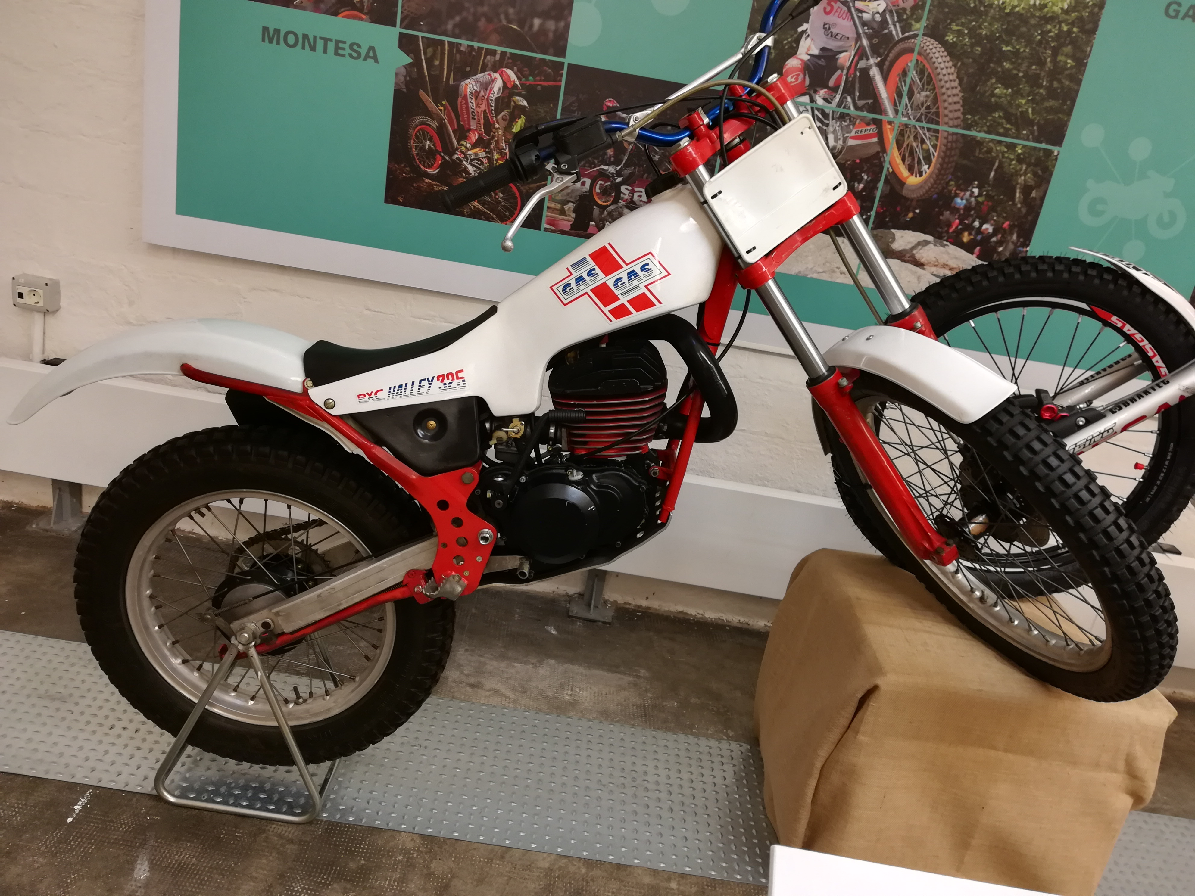 Gas Gas Halley, 325cc, 1985